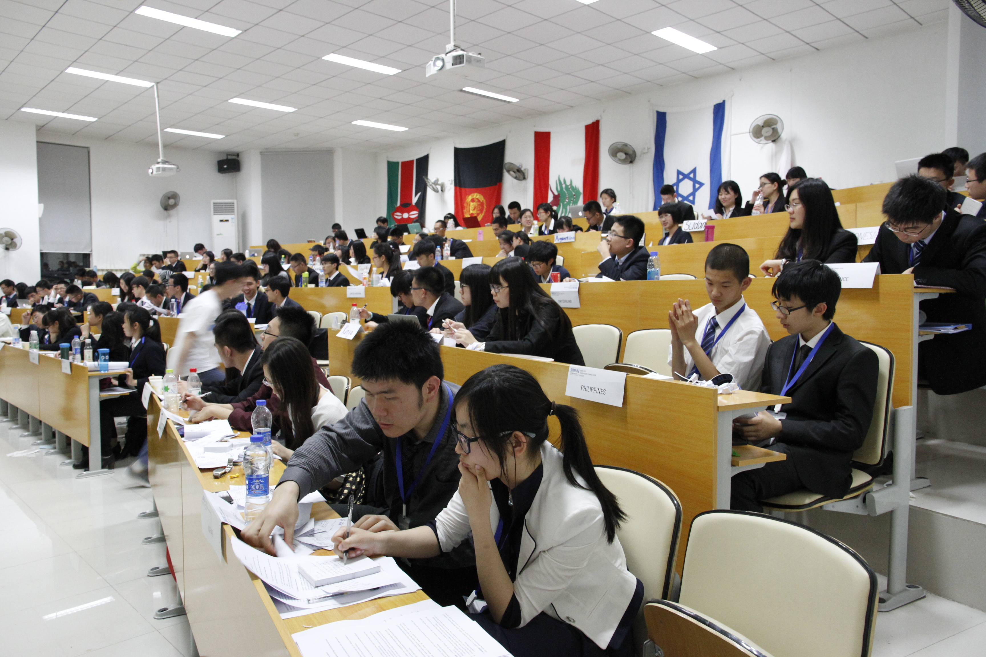 GA-DISEC Committee of Beijing Model United Nations 2015, held in China Foreign Affairs University